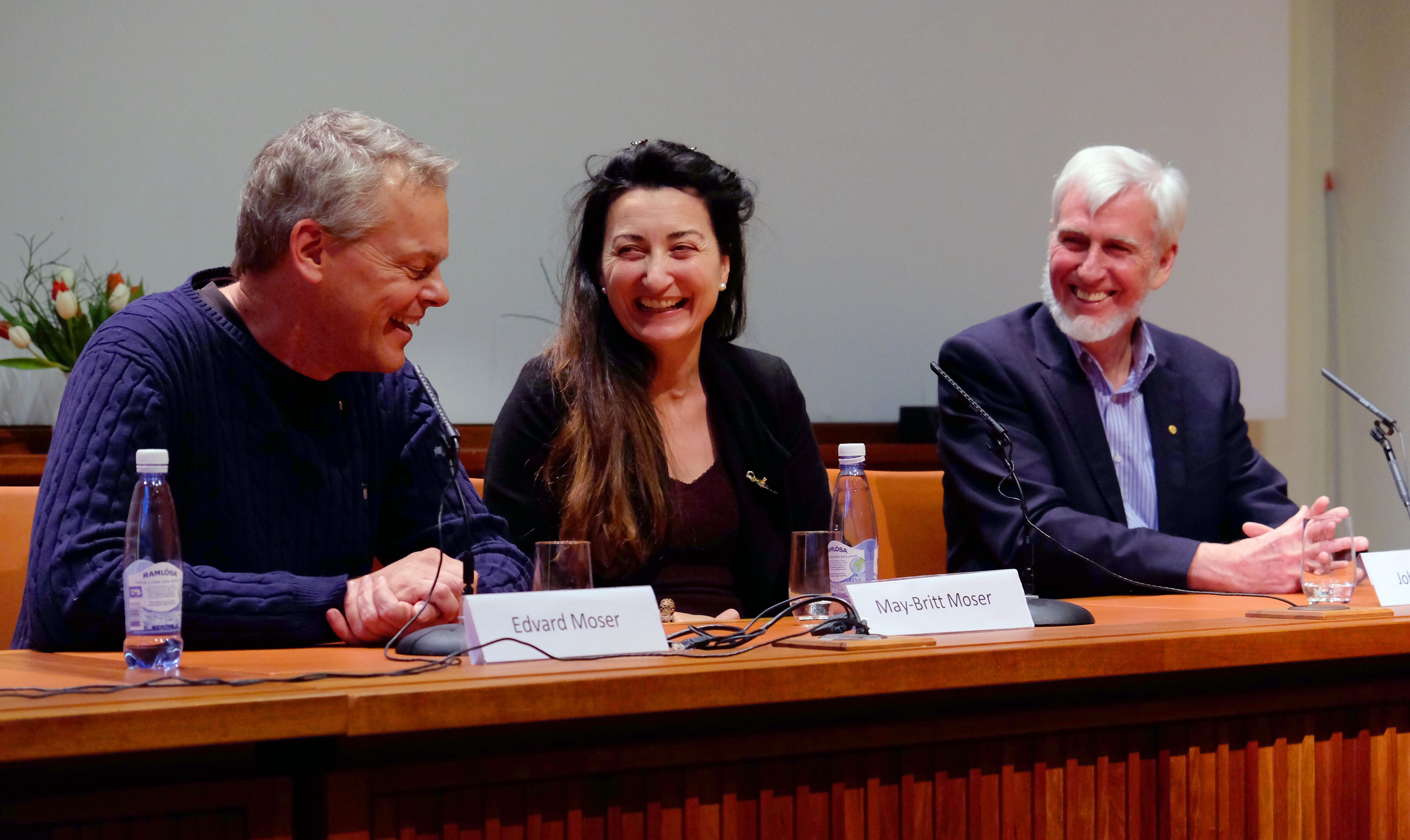 The Nobel Prize Laureates in Medicine 2014: Edvard Moser, May-Britt Moser and John Michael O'Keefe at a press conference in December 2014